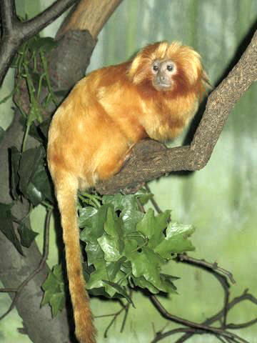 Description: Golden Lion Tamarin - Source: own work - Location: Bronx Zoo, New York - Author: self, User:Stavenn